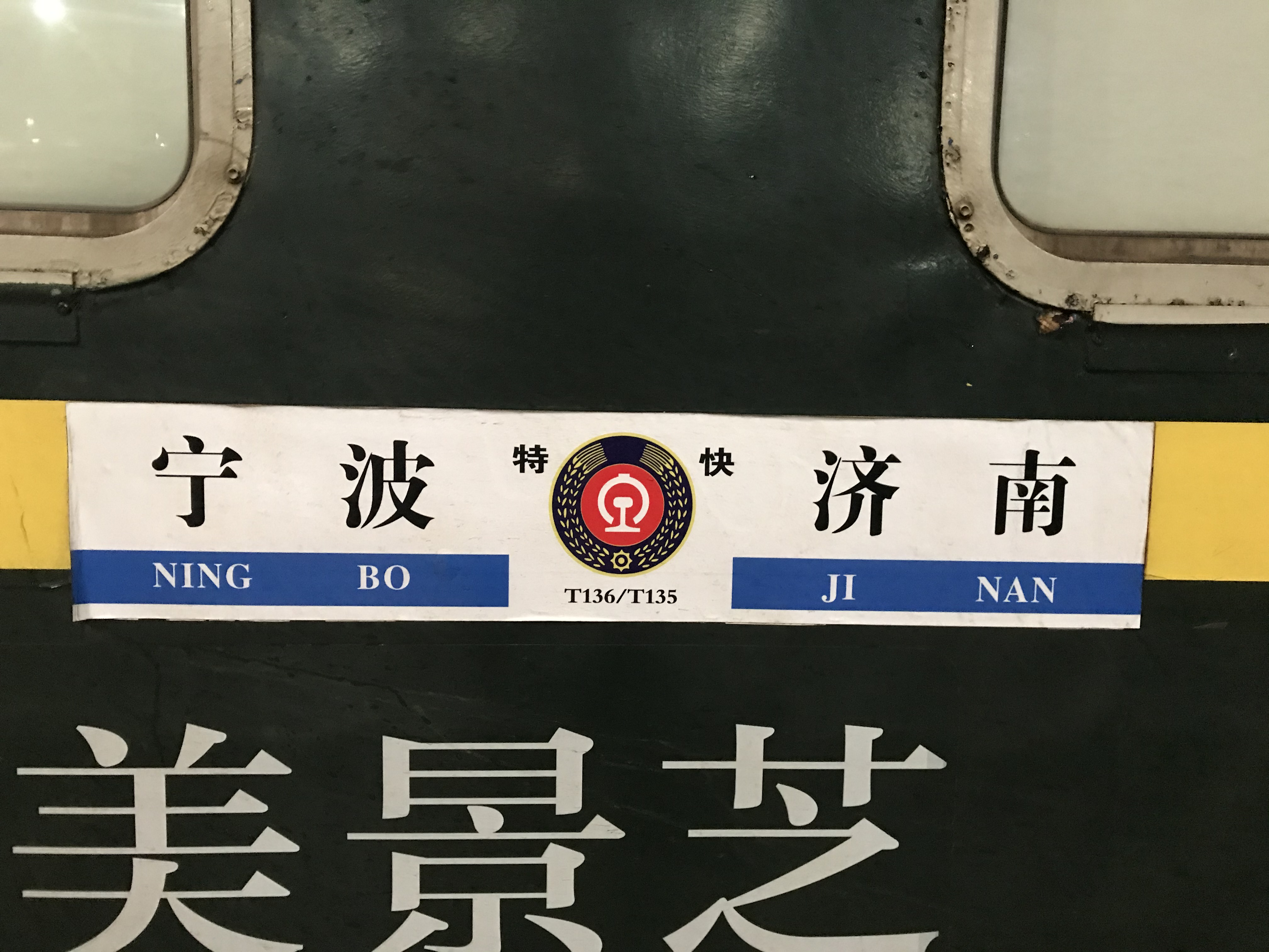 One of the most difficult train to catch in Yangtze River Delta